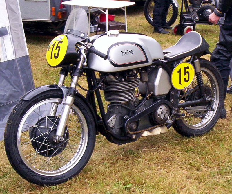 Norton Manx 500 cc Racer 1953